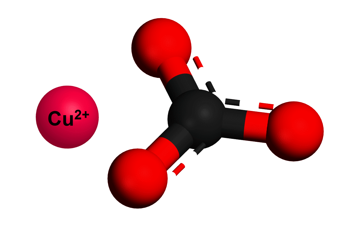 3D Ball-and-stick model of Copper(II) carbonate